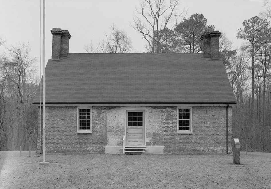 Kiskiack, Naval Mine Depot, State Route 238 vicinity, Yorktown vicinity (York County, Virginia) cropped, HABS VA,100-YORK.V,2-3 This file comes from the Historic American Buildings Survey (HABS), Historic American Engineering Record (HAER) or Historic American Landscapes Survey (HALS). These are programs of the National Park Service established for the purpose of documenting historic places. Records consist of measured drawings, archival photographs, and written reports. When reusing please credit: Library of Congress, Prints & Photographs Division, VA-183 This tag does not indicate the copyright status of the attached work. A normal copyright tag is still required. See Commons:Licensing. This work is in the public domain in the United States because it is a work prepared by an officer or employee of the United States Government as part of that person’s official duties under the terms of Title 17, Chapter 1, Section 105 of the US Code. Note: This only applies to original works of the Federal Government and not to the work of any individual U.S. state, territory, commonwealth, county, municipality, or any other subdivision. This template also does not apply to postage stamp designs published by the United States Postal Service since 1978. (See § 313.6(C)(1) of Compendium of U.S. Copyright Office Practices). It also does not apply to certain US coins; see The US Mint Terms of Use. This file has been identified as being free of known restrictions under copyright law, including all related and neighboring rights.